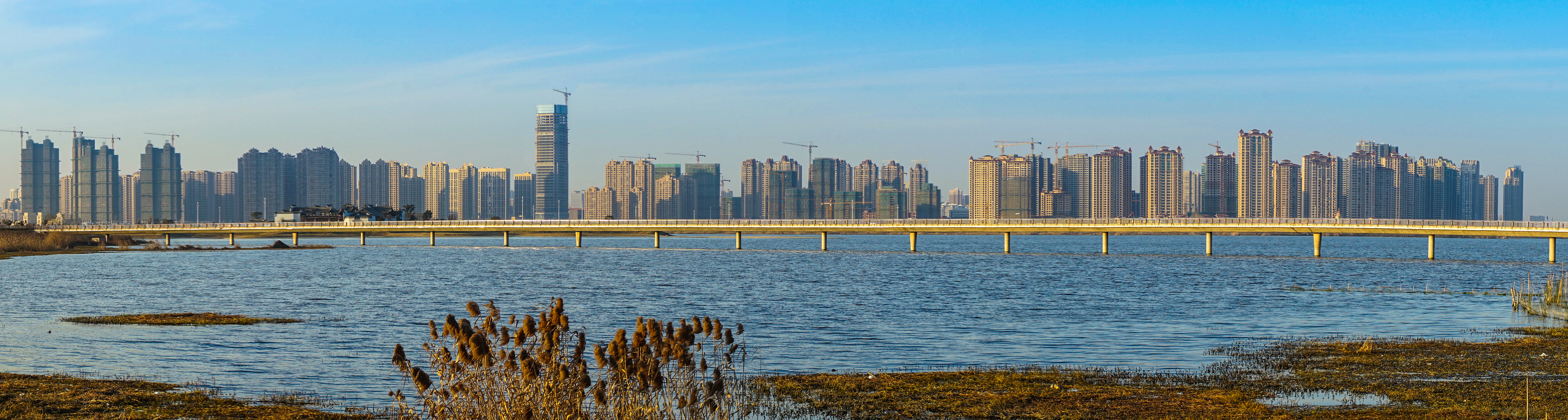 Dragon Lake Overlooking the Bengbu city